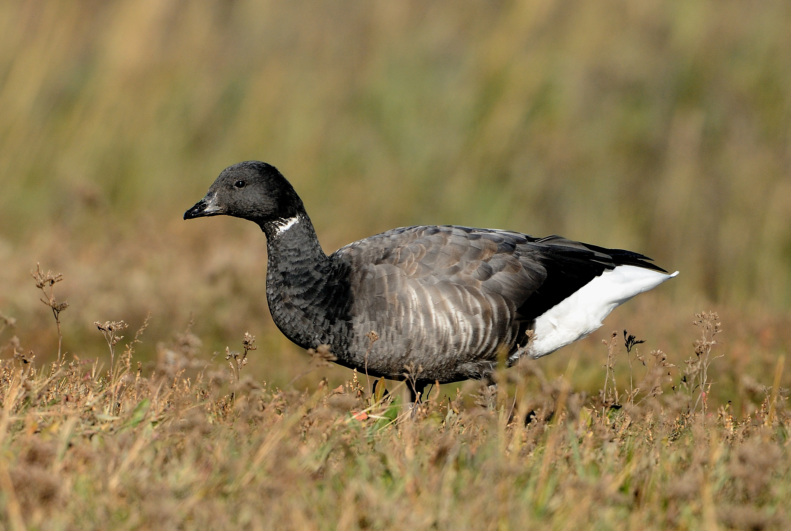 Brent Goose Branta bernicla bernicla, Norfolk, UK